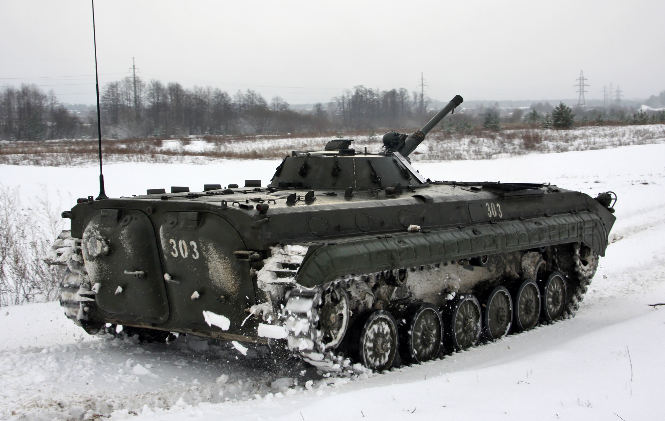 Average speed, overcoming the obstacles and driver technique is estimated during the examination